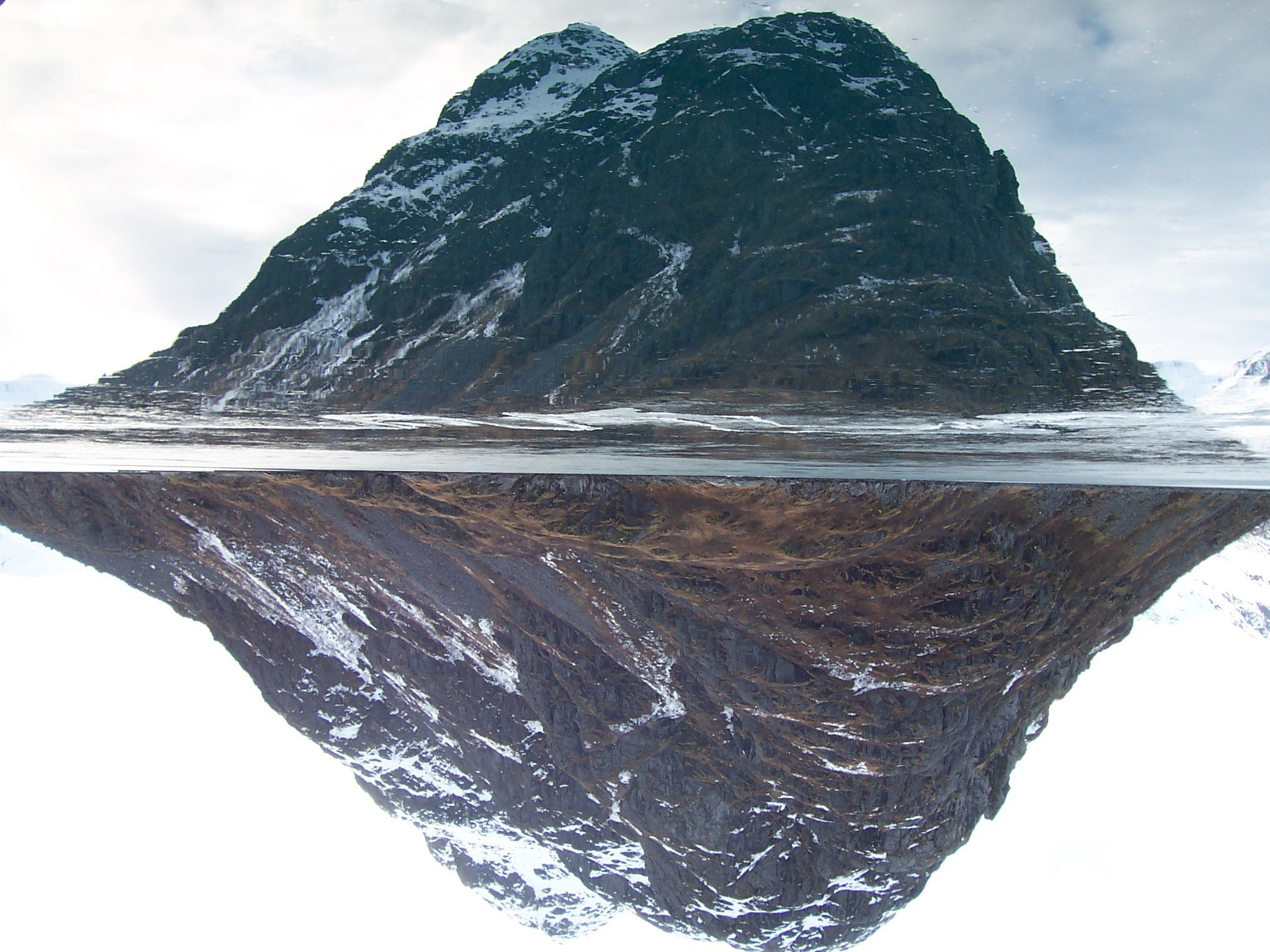 Three Saints Bay area. Which way is up? Actually this picture is upside-down and the top half of the image is the reflection. A remarkably calm February day. Image ID: line6239, NOAA's America's Coastlines Collection Location: Alaska, Kodiak Island Credit: Crew and Officers of NOAA Ship MILLER FREEMAN